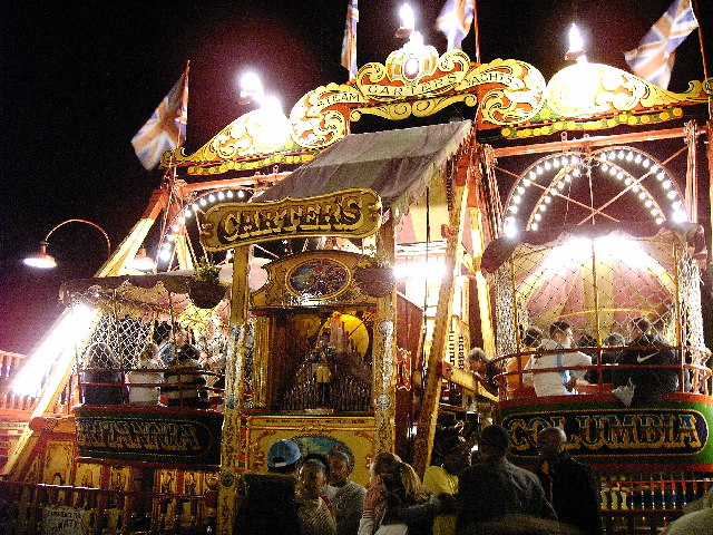 Steam boat ride at Prospect Park. Carters Steam Fair